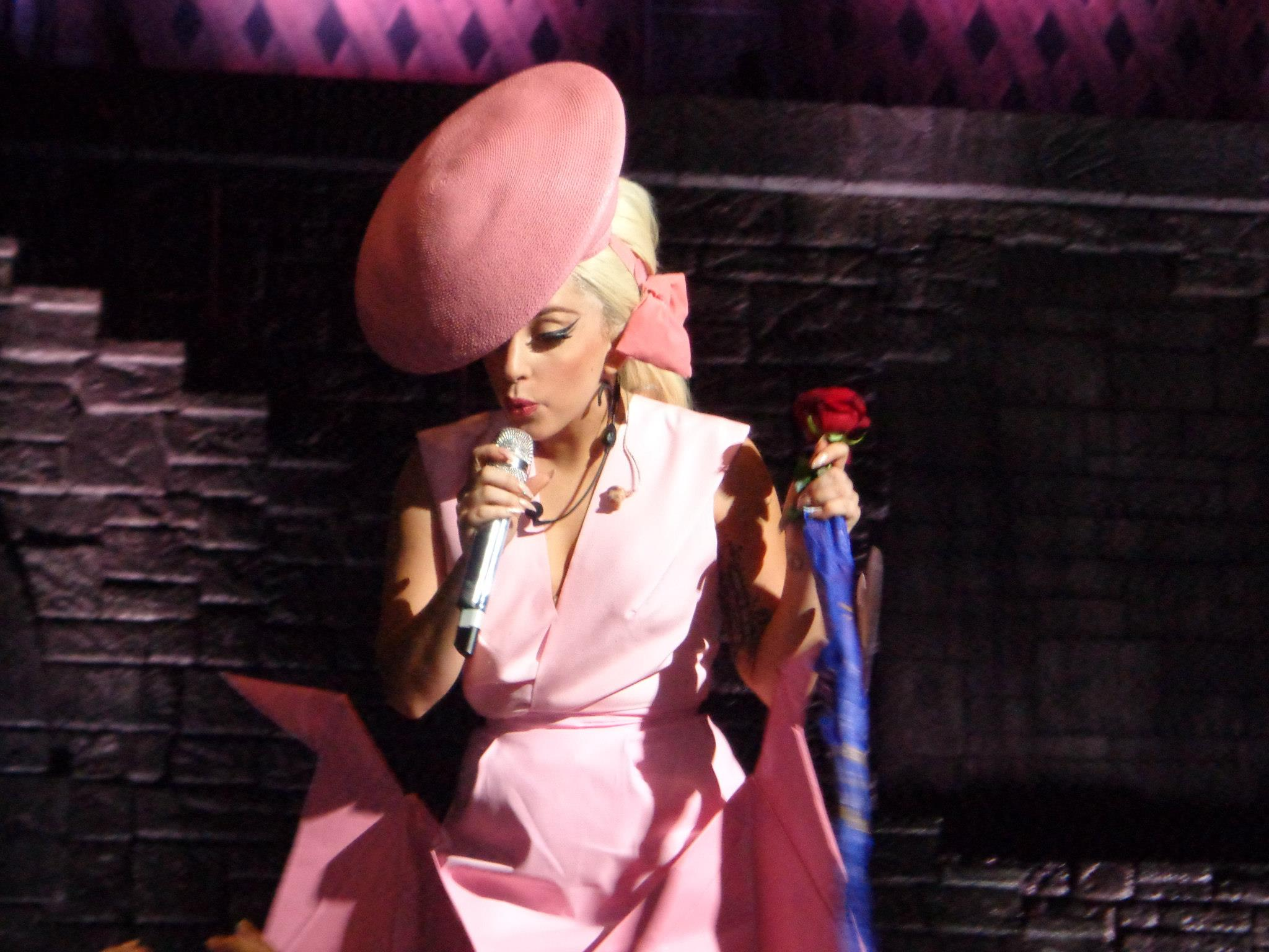 Lady Gaga at The Born This Way Ball in Stockholm.